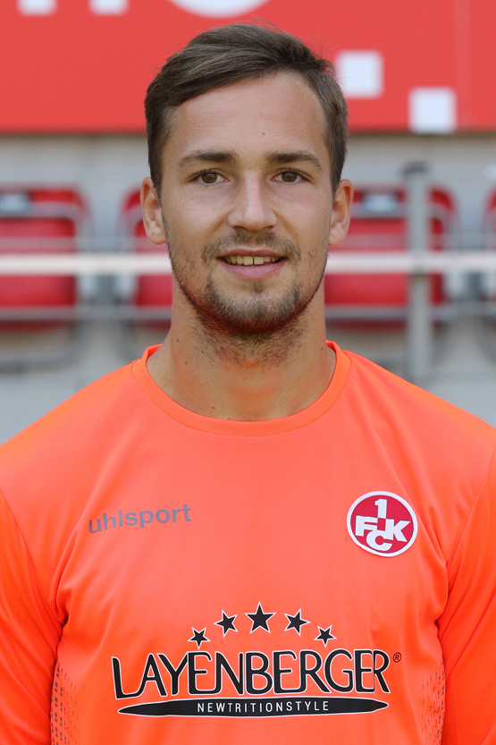 Jan Ole Sievers (Nr. 1)